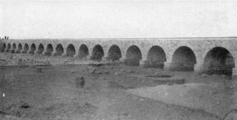 Photo of Asluj bridge in 1917 Other information First published in 1922 in New Zealand